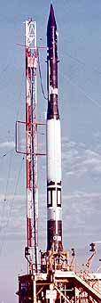 Rocket used for the launch of the Vanguard 1 satelite